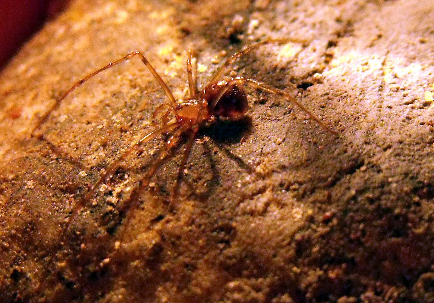 Nesticus eremita photographed in Grotta dei Bambocci cave, near Collepardo, Alatri, Frosinone province, Latium, central Italy. Photo by Marcelli Massimiliano.